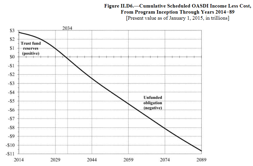 Cumulative OASDI Income Less Cost - 2008